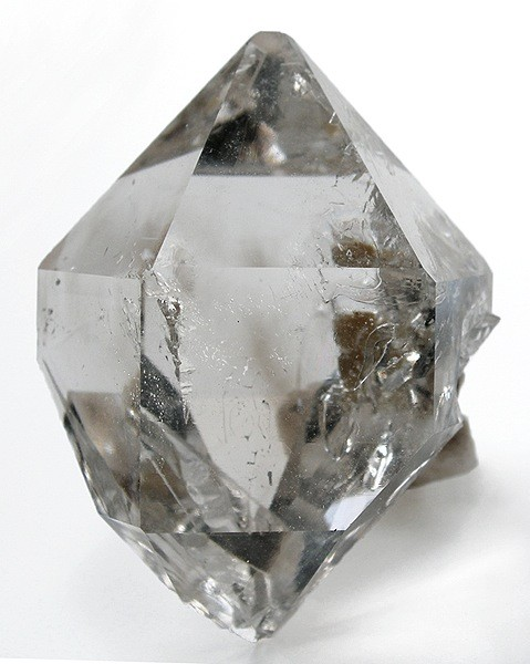 Quartz (Var.: Herkimer Diamond) Locality: Ace of Diamonds Mine, Middleville, Town of Newport, Herkimer County, New York, USA (Locality at ) Size: 4.3 x 3.6 x 3.0 cm. This is a sharp quartz specimen from the classic "diamond mines" near Herkimer, New York. It is so sharp, so gemmy, it looks carved, hence their nicknames. The crystal is perfectly balanced on a natural little pedestal of rock matrix, attached at its base. Ex. Helmut Bruckner Collection.